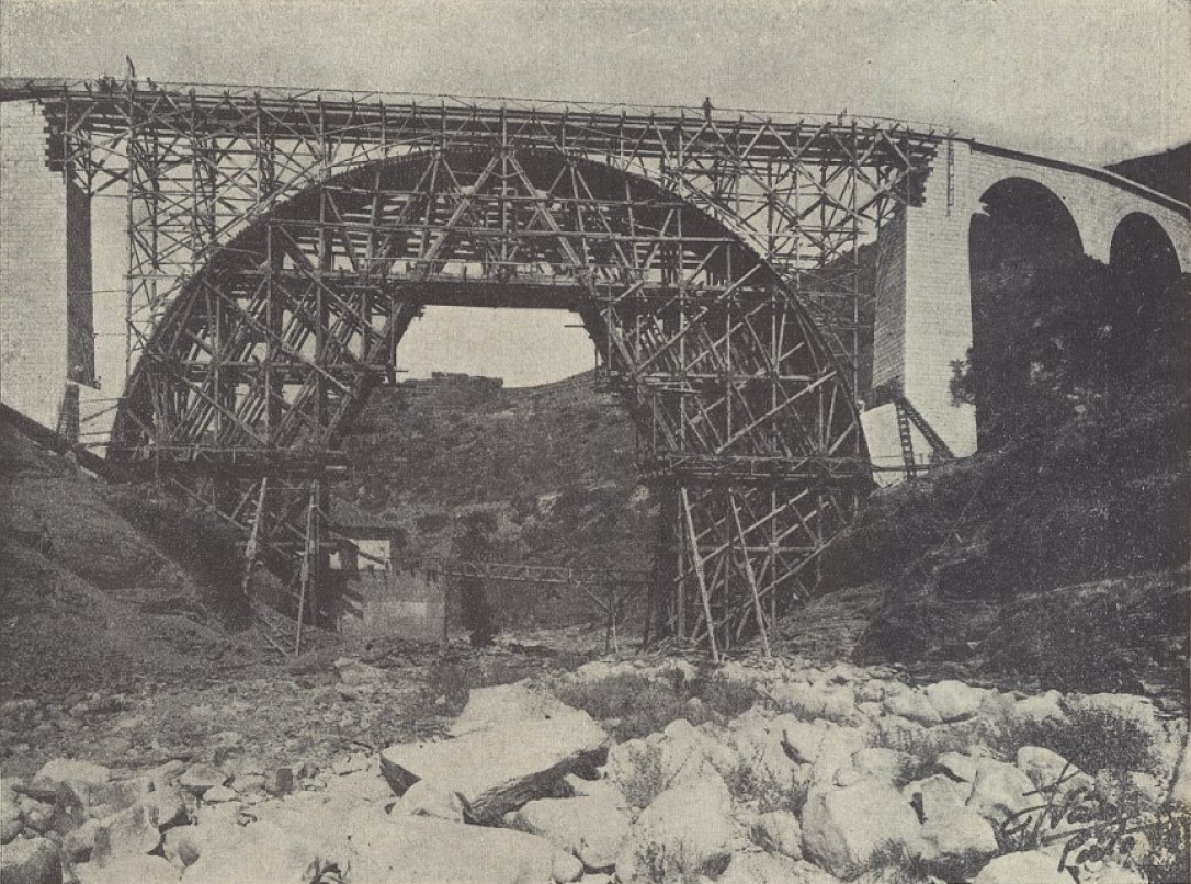 Construction of the Varosa Bridge, in the Lamego Railway, in Portugal. When the Lamego Railway project was cancelled, the former track foundations and the bridges were transformed in roads. This image was published in the Gazeta dos Caminhos de Ferro magazine No. 1113, of 1st May 1934, and scanned by the Hemeroteca Municipal de Lisboa.